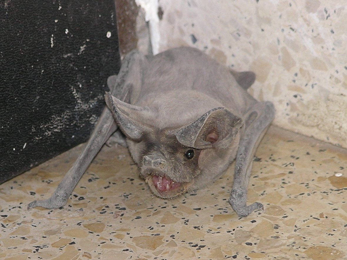 European Free-tailed Bat (Tadarida teniotis) in Beer Sheva, Israel